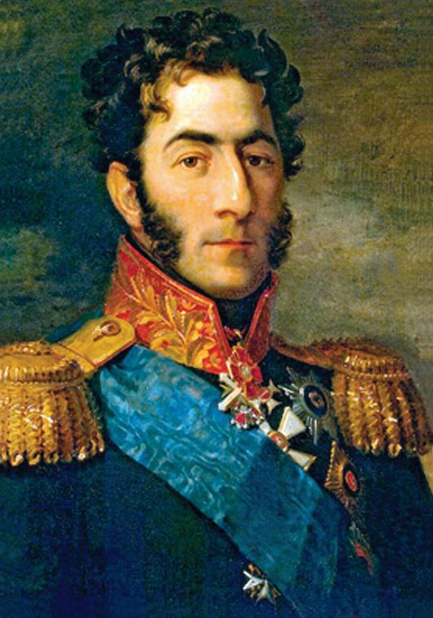 A portrait of Prince Pyotr Bagration from the 19th century